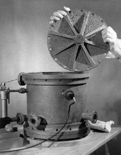 Orginal Millikan’s oil-drop apparatus with an open lid.